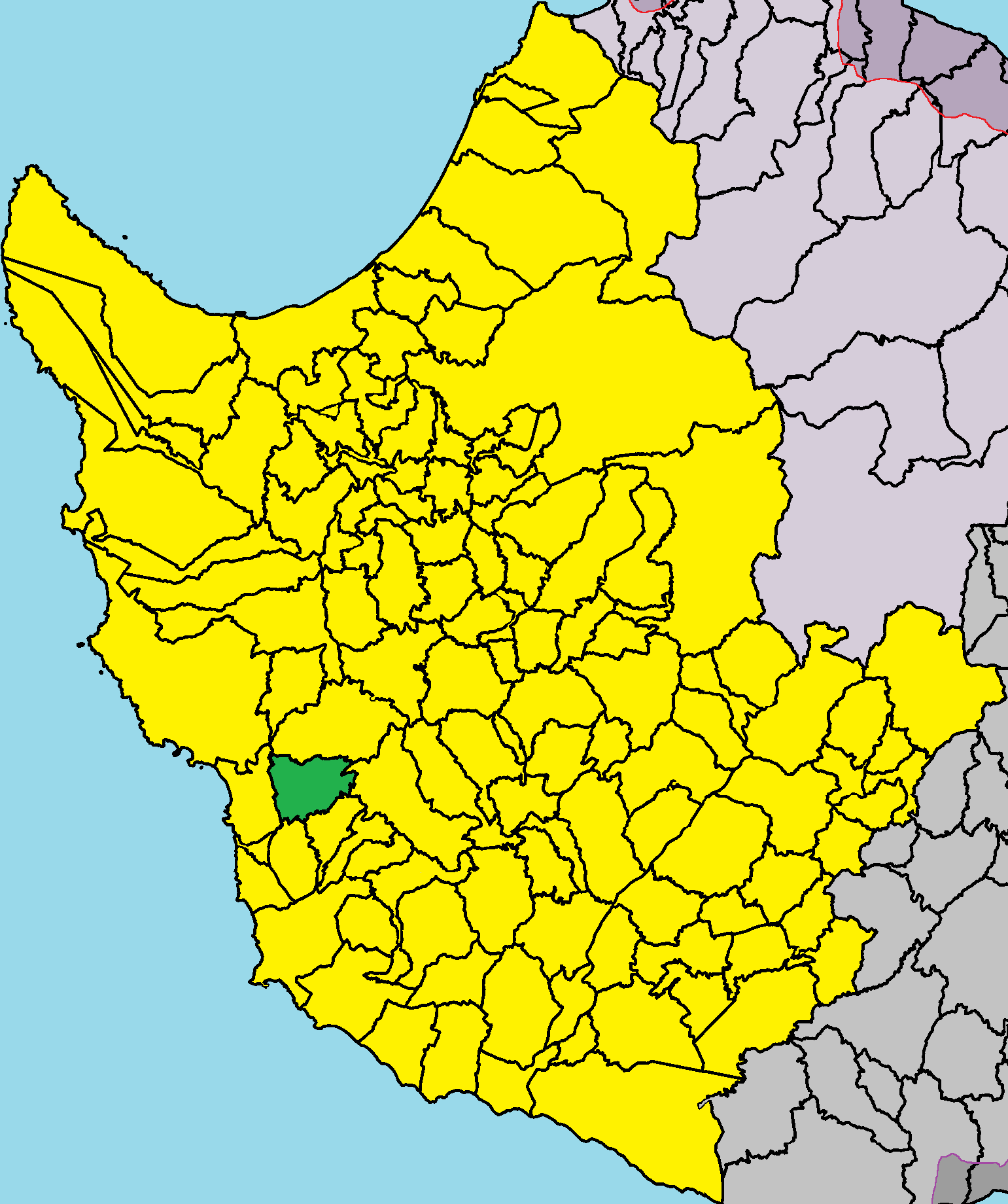 Tala, Cyprus in Paphos District.